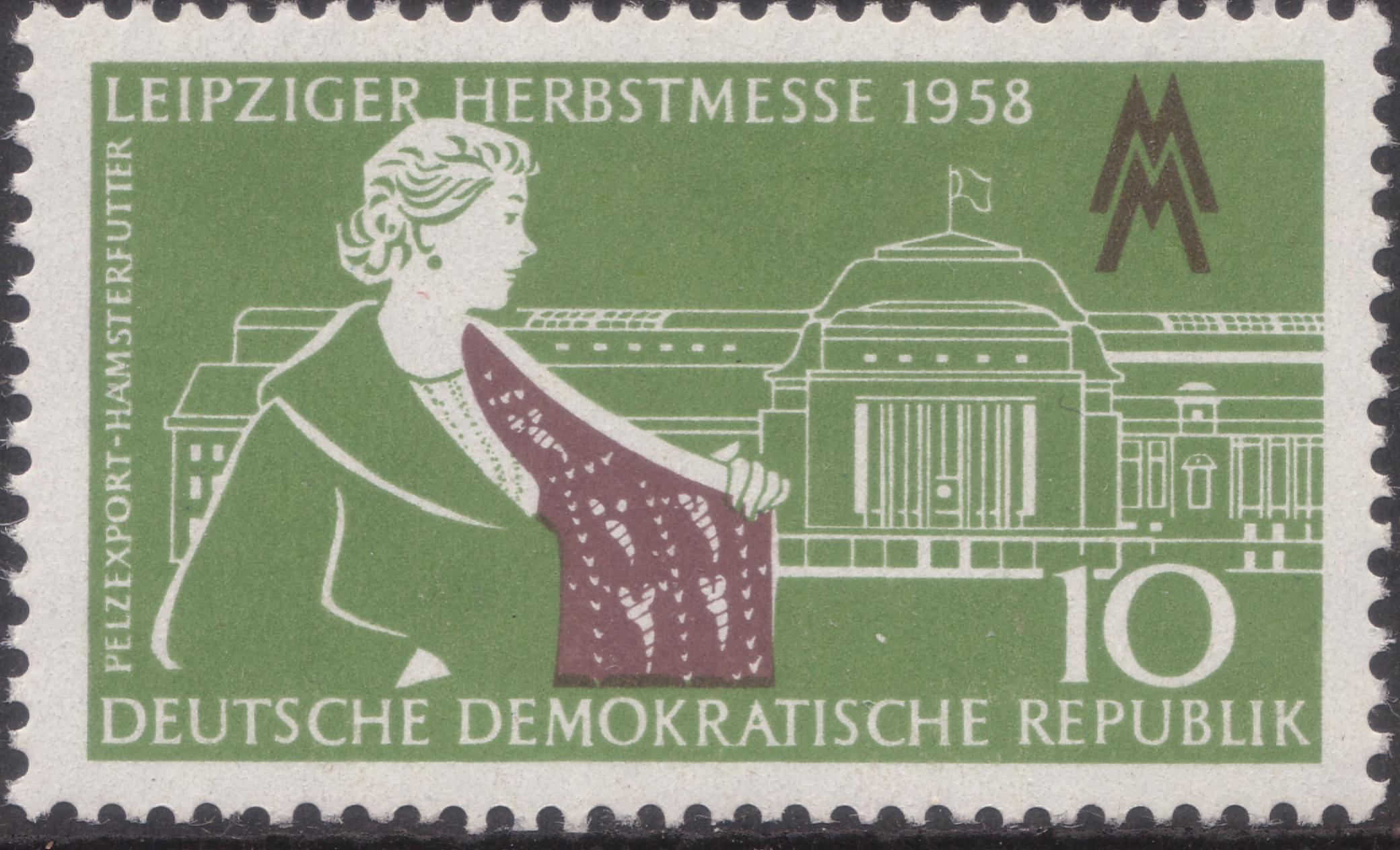 Leipzig Traid Fair (autumn 1958) Graphic designer: Prieß Ausgabepreis: 10 Pf First Day of Issue / Erstausgabetag: 29. August 1958 Michel-Katalog-Nr: DDR 649